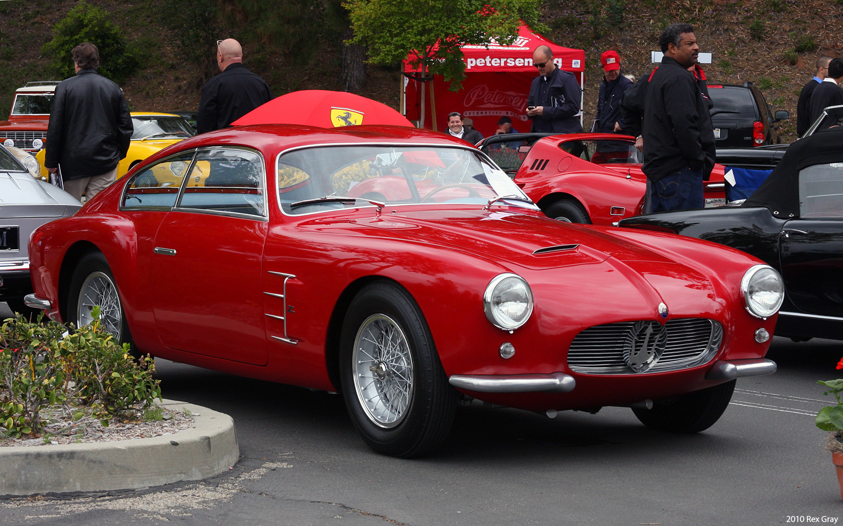 Greystone Mansion Inaugural Concours d'Elegance, April 11, 2010